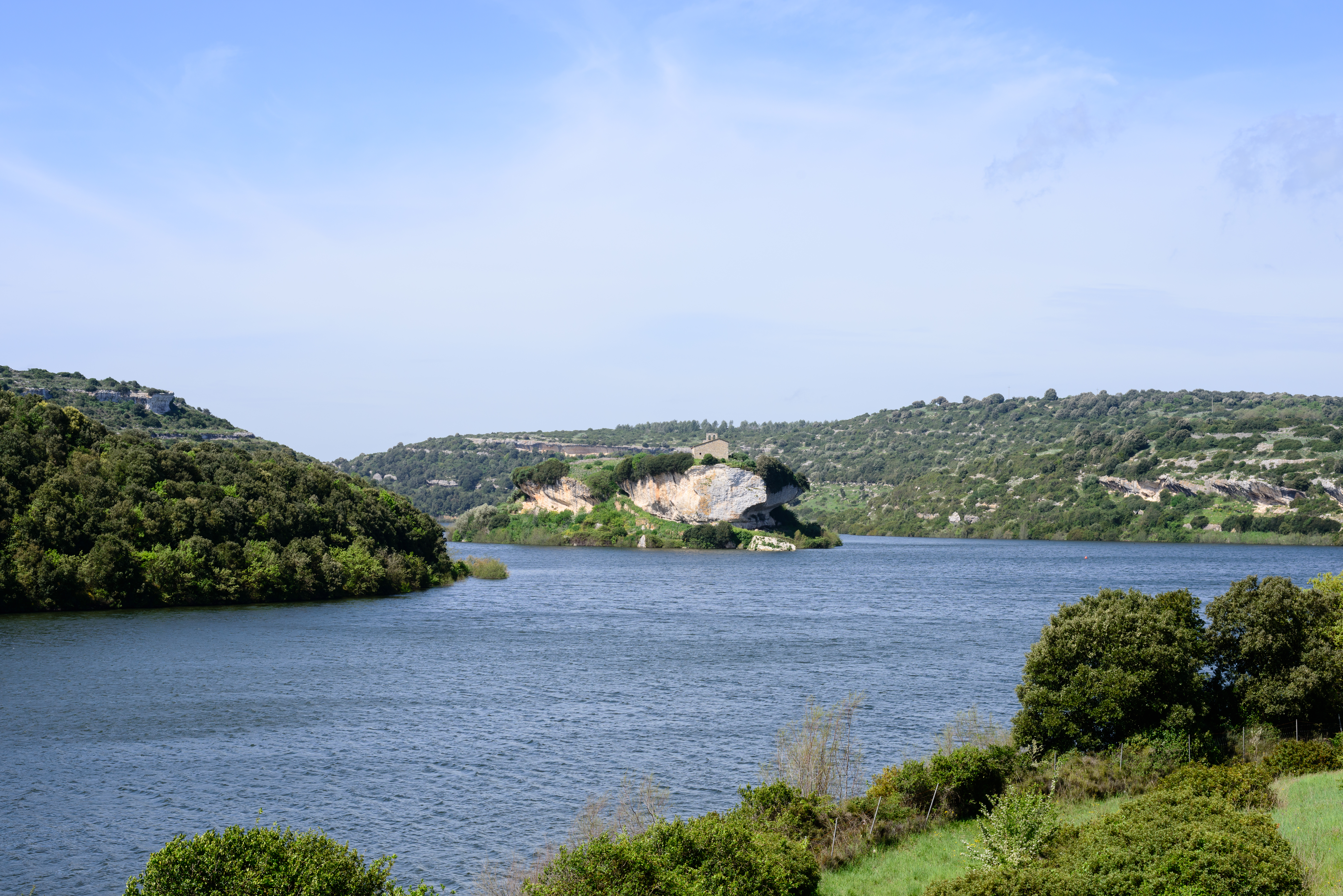 Lago Is Barrocus near Isili, Sardinia, Italy.